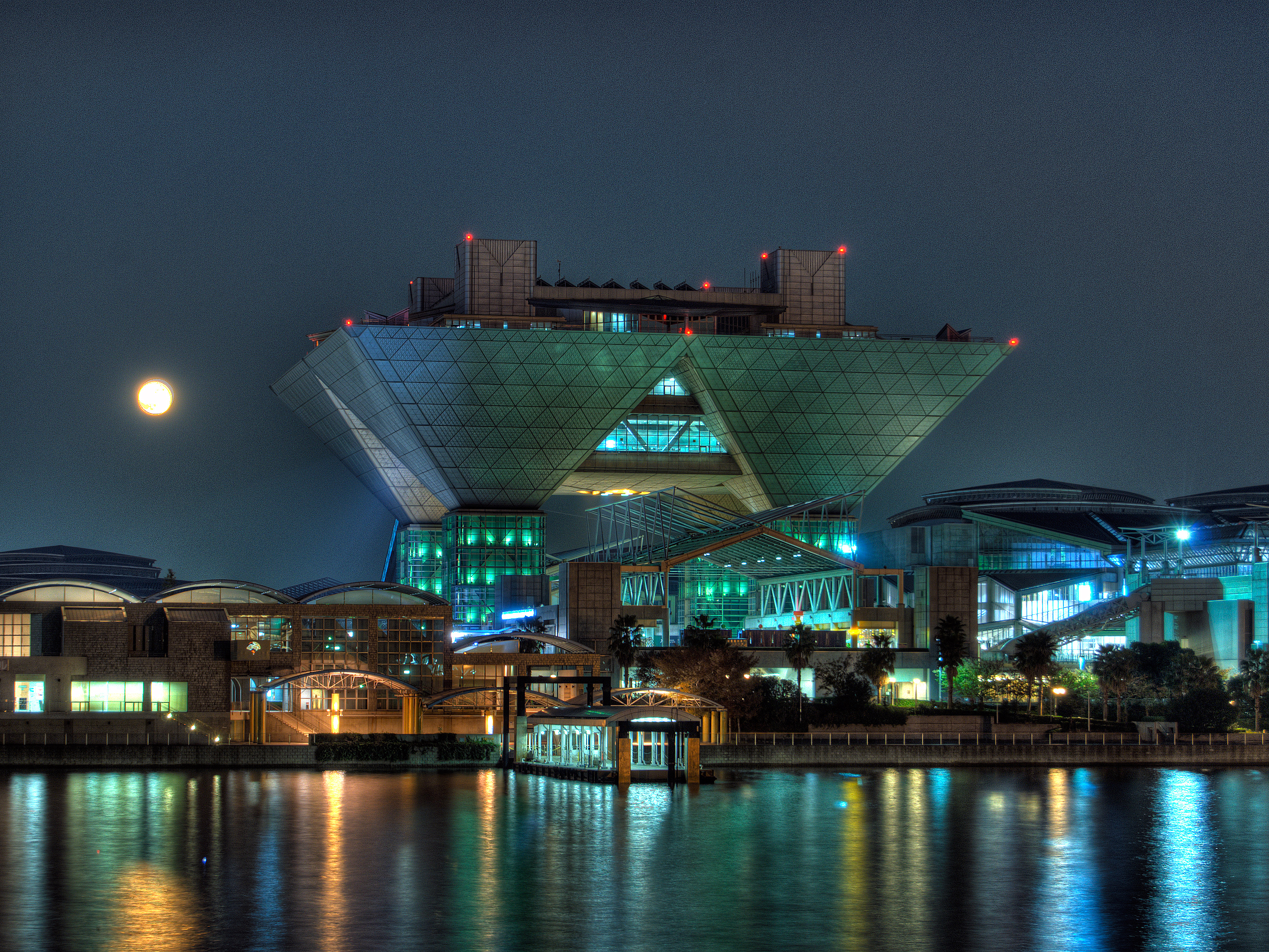 Tokyo Big Sight (Night Scene).Night of Tokyo Big Sight